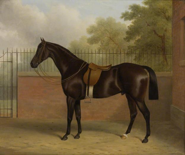 a painting by 19th century artist John Paul of a bay stallion wearing a saddle in front of a brick wall in summer